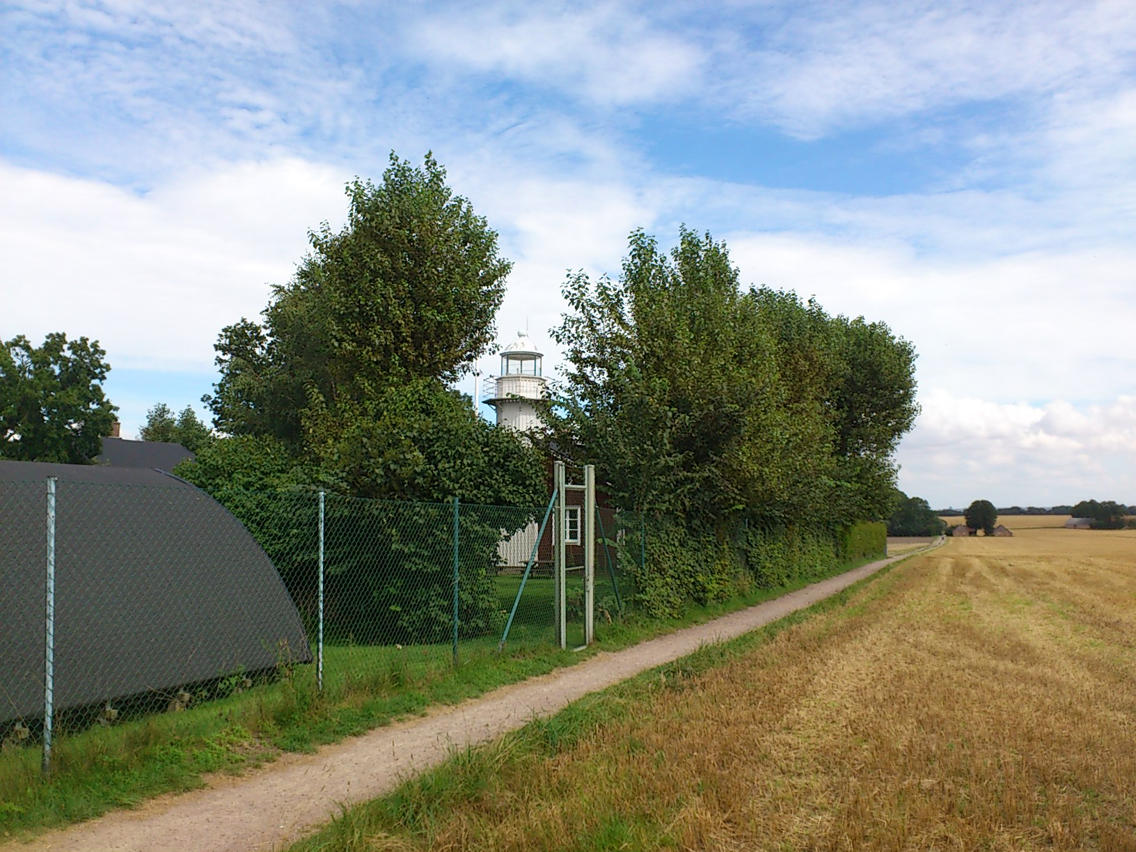 The old western lighthouse at island Ven, Sweden